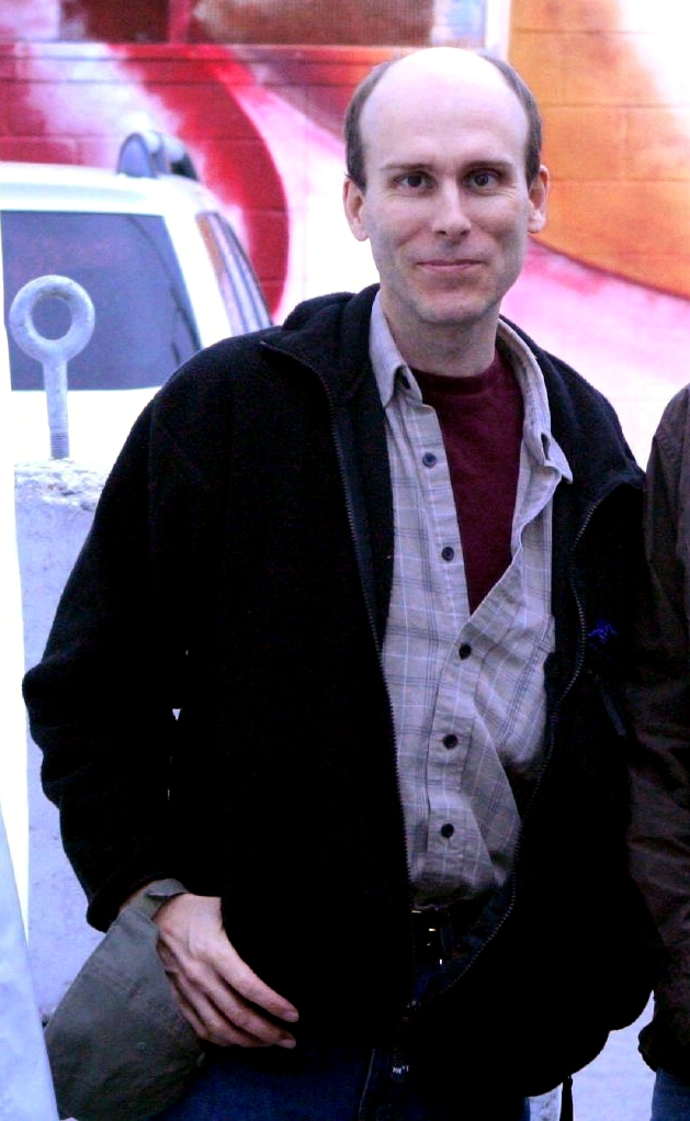 Chester Brown, cropped from an image by Joel Friesen. Original image described as This is my booth buddy, Brad standing between Seth on the right and Chester Brown. I promised I'd email my booth buddies some photos. So I hope to get that done during this "tie-up-loose-ends-and-clear-out-scraps-from -my-wallet" day.